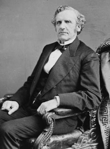 Eli Perry, Mayor of Albany and U.S. Congressman from New York.